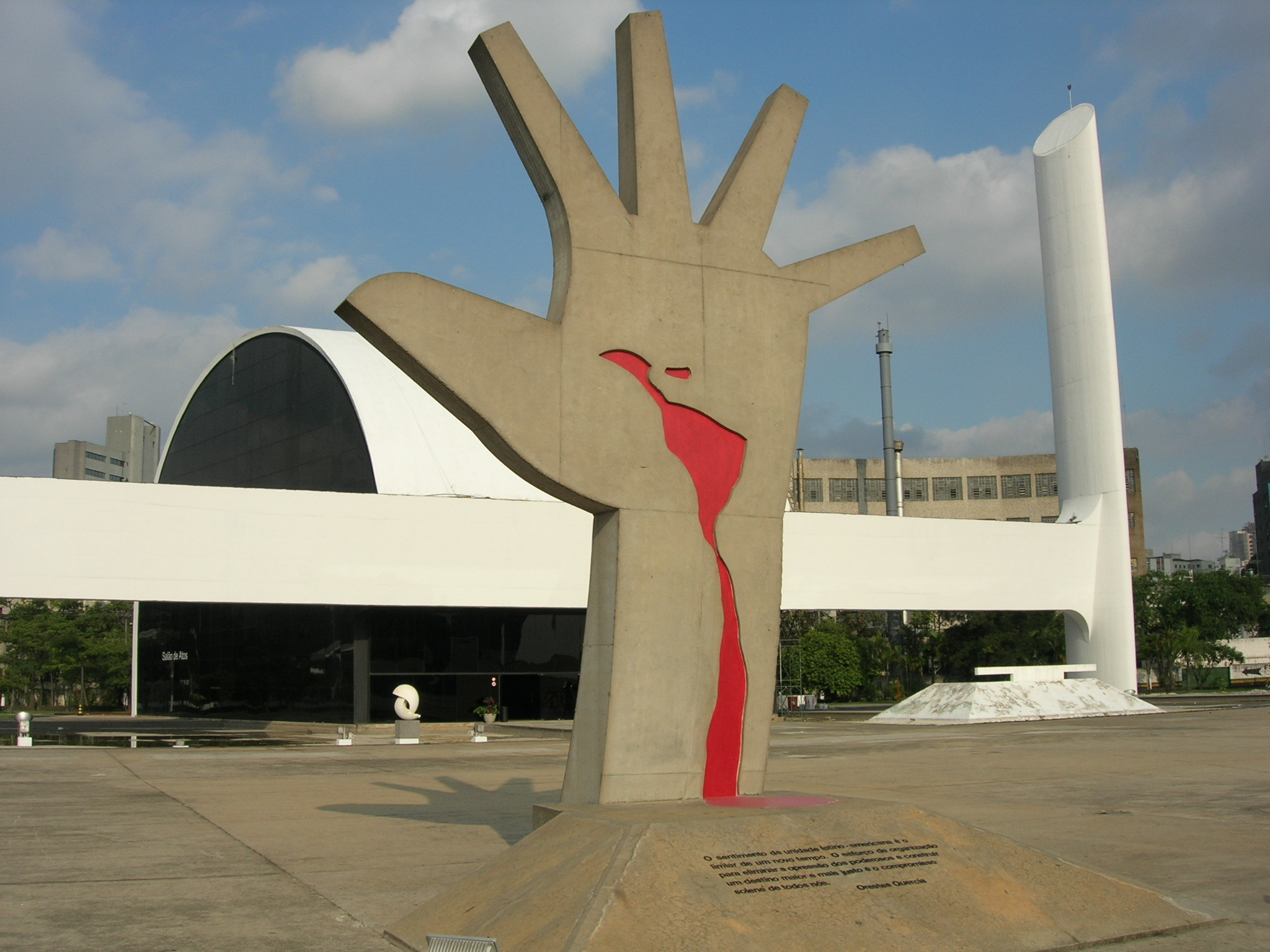 Picture taken by Usuário:Gabrielt4e. Shot of the Mão of Oscar Niemeyer, in Memorial da América Latina - São Paulo, SP. Foto tirada por Usuário:Gabrielt4e. Imagem do Mão de Oscar Niemeyer, no Memorial da América Latina - São Paulo, SP.